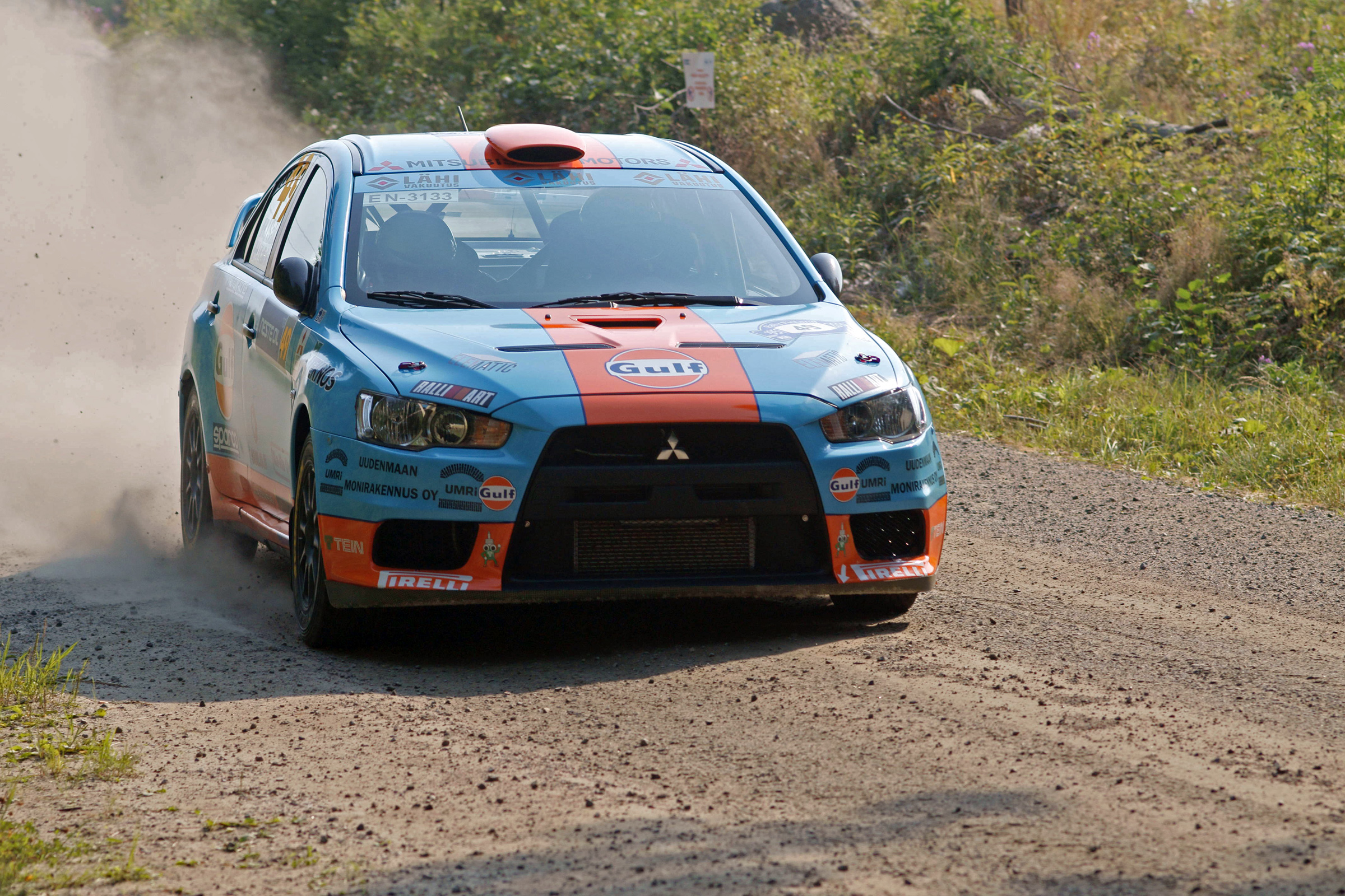 Juha Salo driving at Rannakylä shakedown in Muurame.